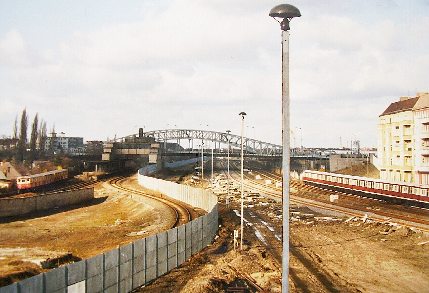 Area of S-Bahn station Bornholmer Strasse, 1990